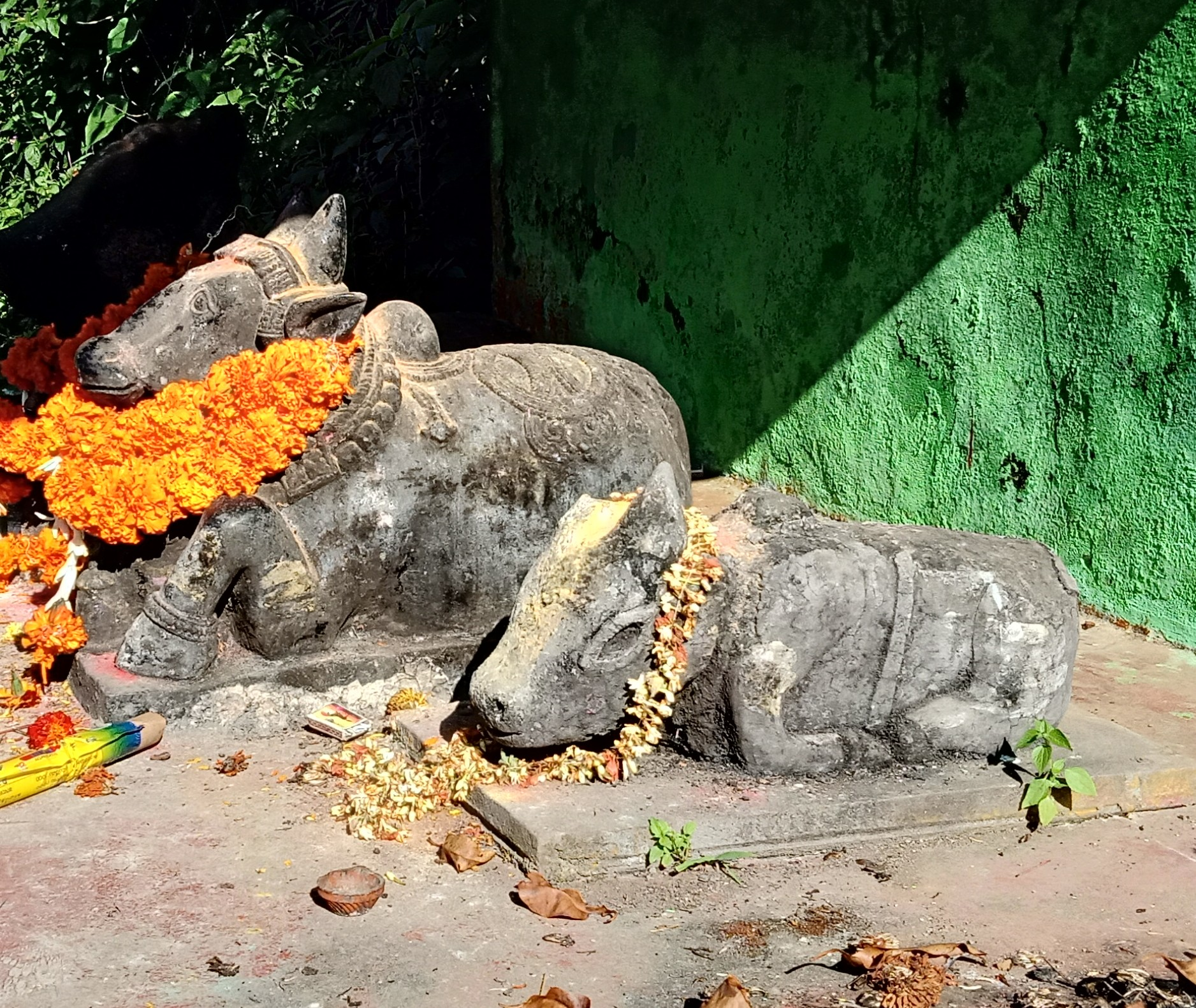 Kaati Basava, a gaur icon made into a shrine in the Biligirirangan Hills. It is located where a gaur gored Randolph Hayton Morris. A more traditional Nandi was added in later times.